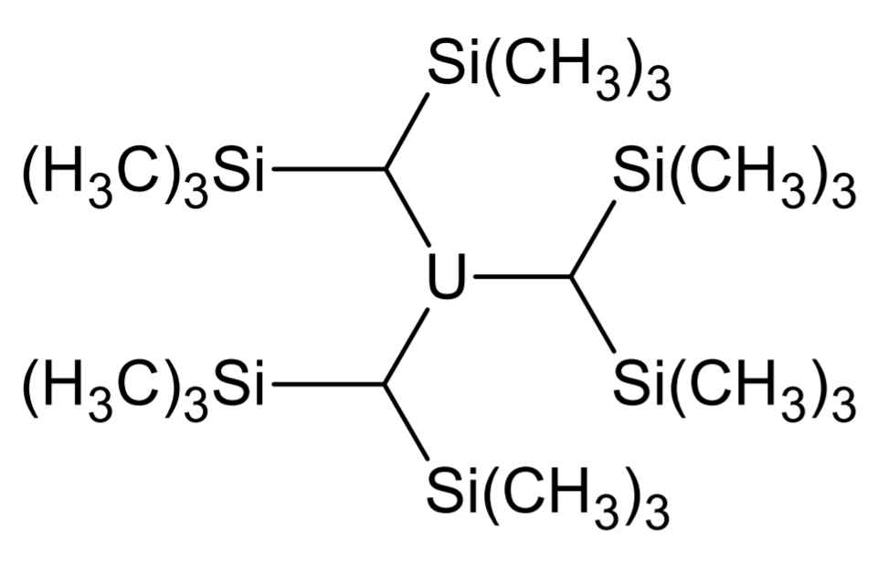 U(CH(SiMe3)2)3